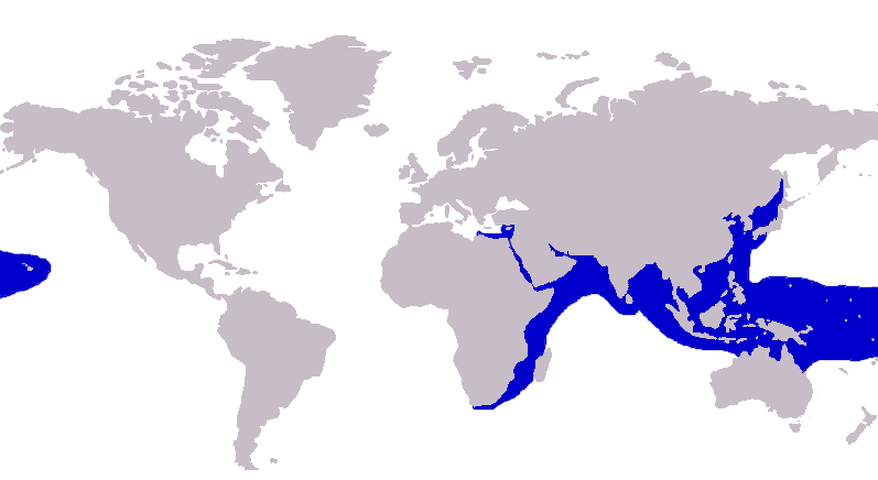 Distribution of the Shrimp scad, Alepes djedbada. Information gathered from Carpenter et al 2002, Fishbase . Map taken from GDFL image